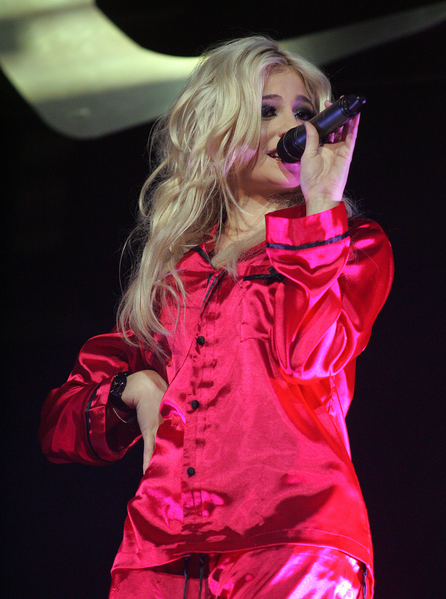 Pixie Lott performing on The Crazy Cats Tour, December 13, 2010 at the Sheffield City Hall in Sheffield, England.